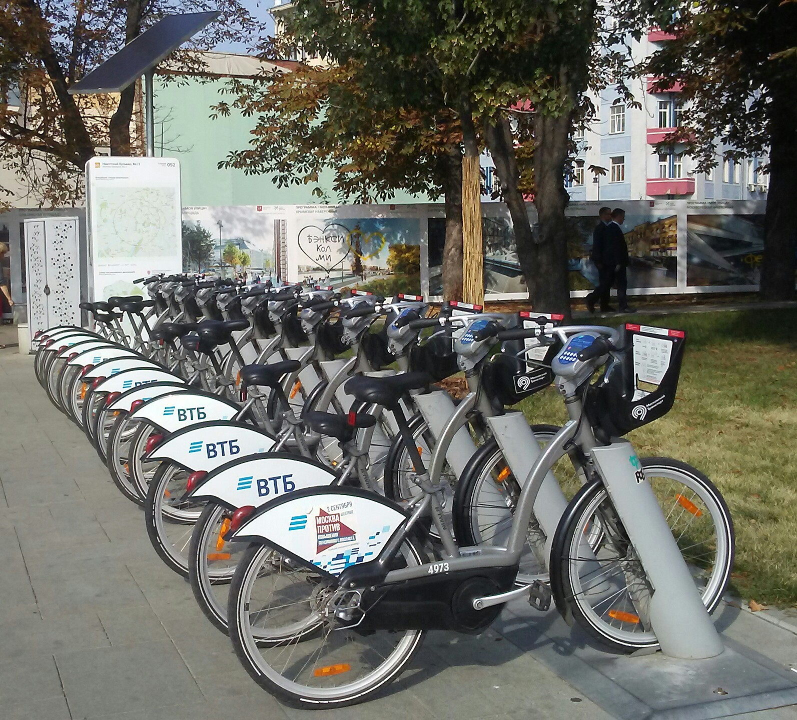 City bike sharing circuit, Moscow